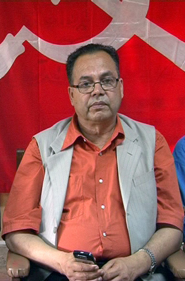 34th primeminister of nepal